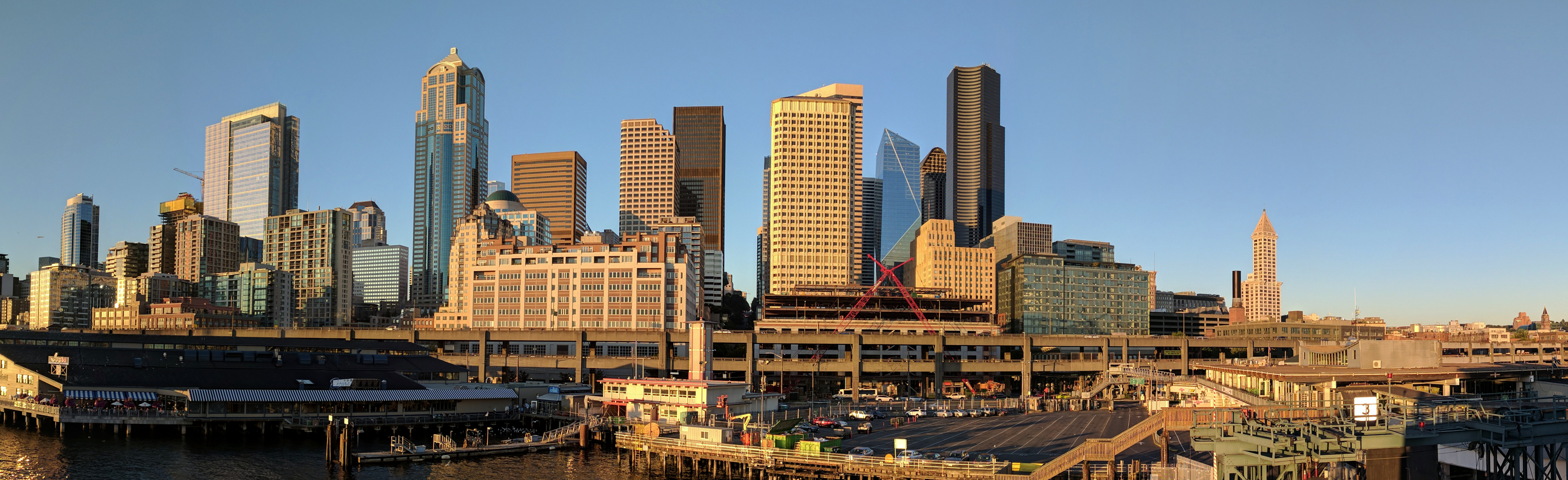 The Alaskan Way Viaduct from Elliott Bay, at golden hour in 2017, from the Bainbridge Island Ferry